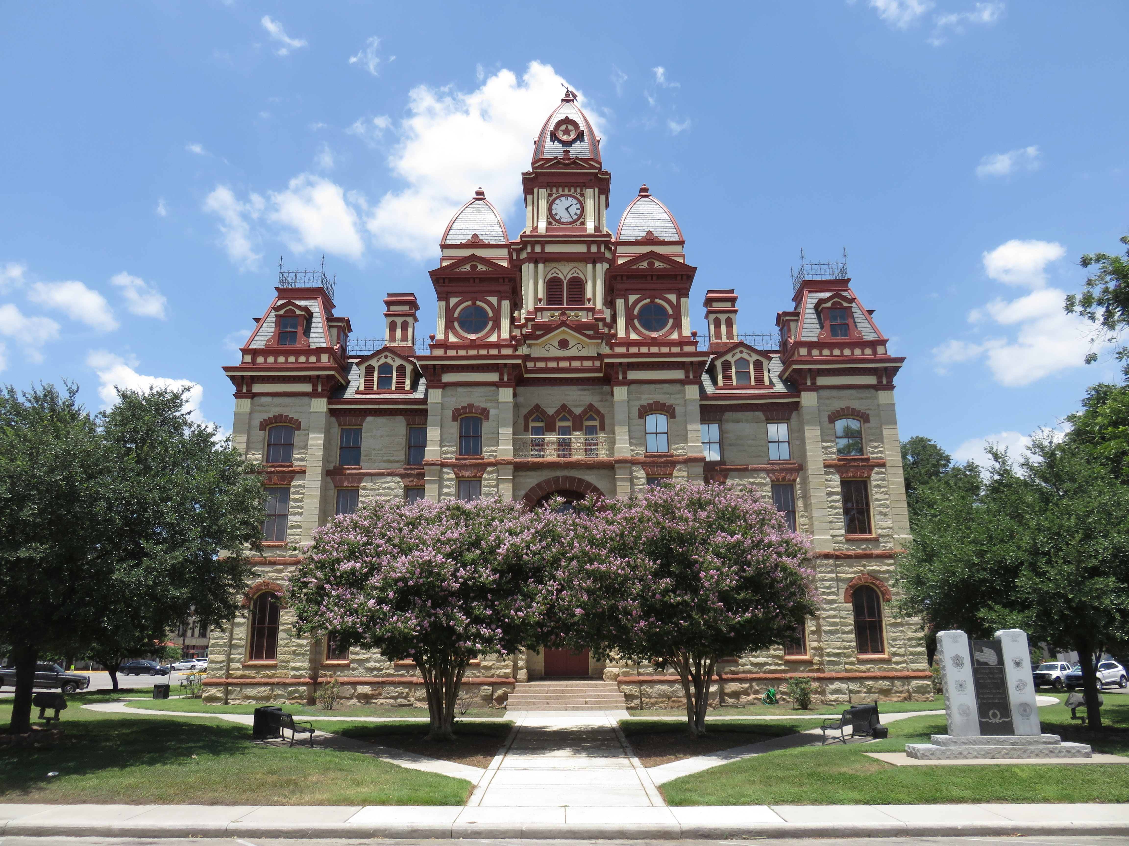 Caldwell County Courthouse in Lockhart, Texas in 2018